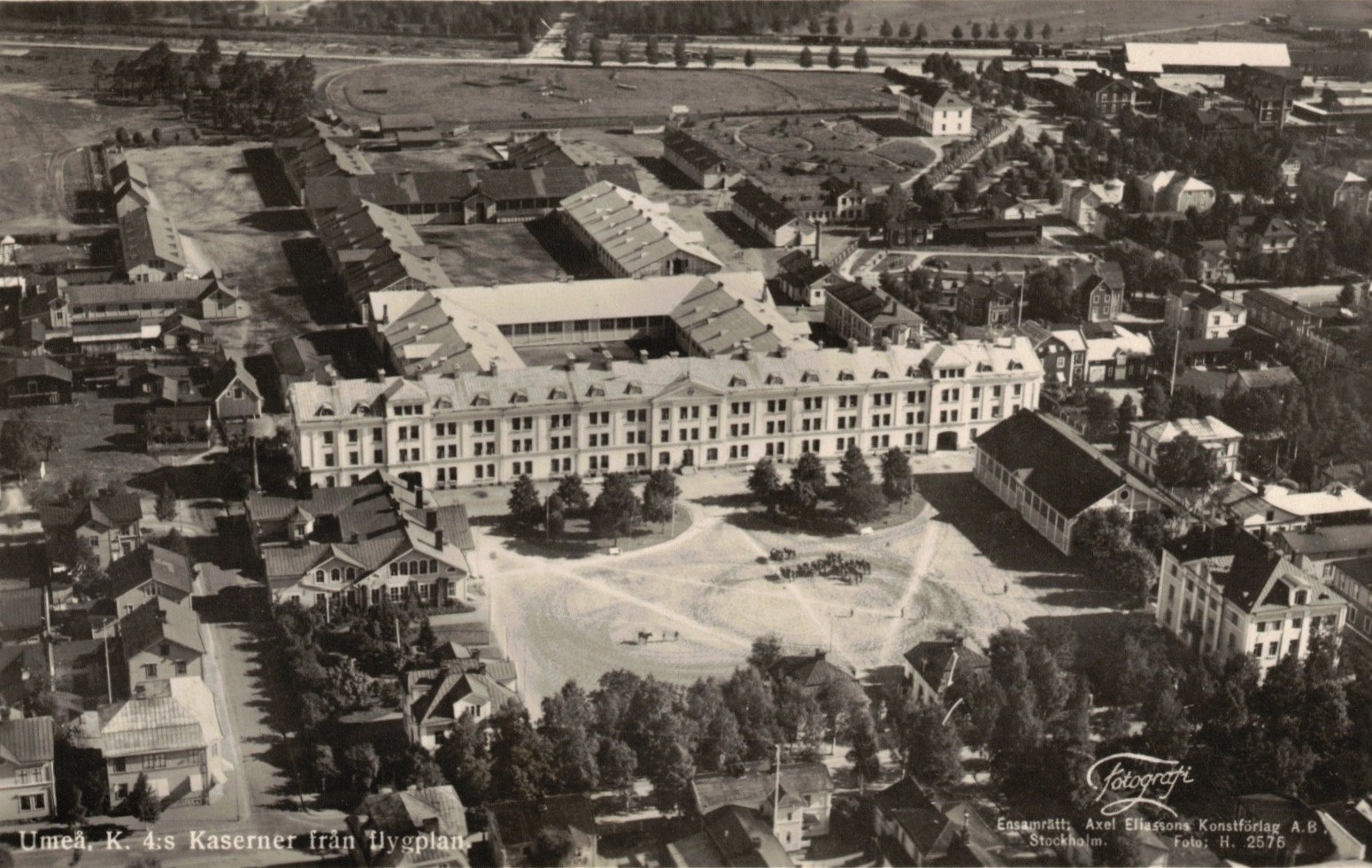 View of the Royal Norrland Dragoon Regiment (K 4) in Umeå, 1934. Postcard.